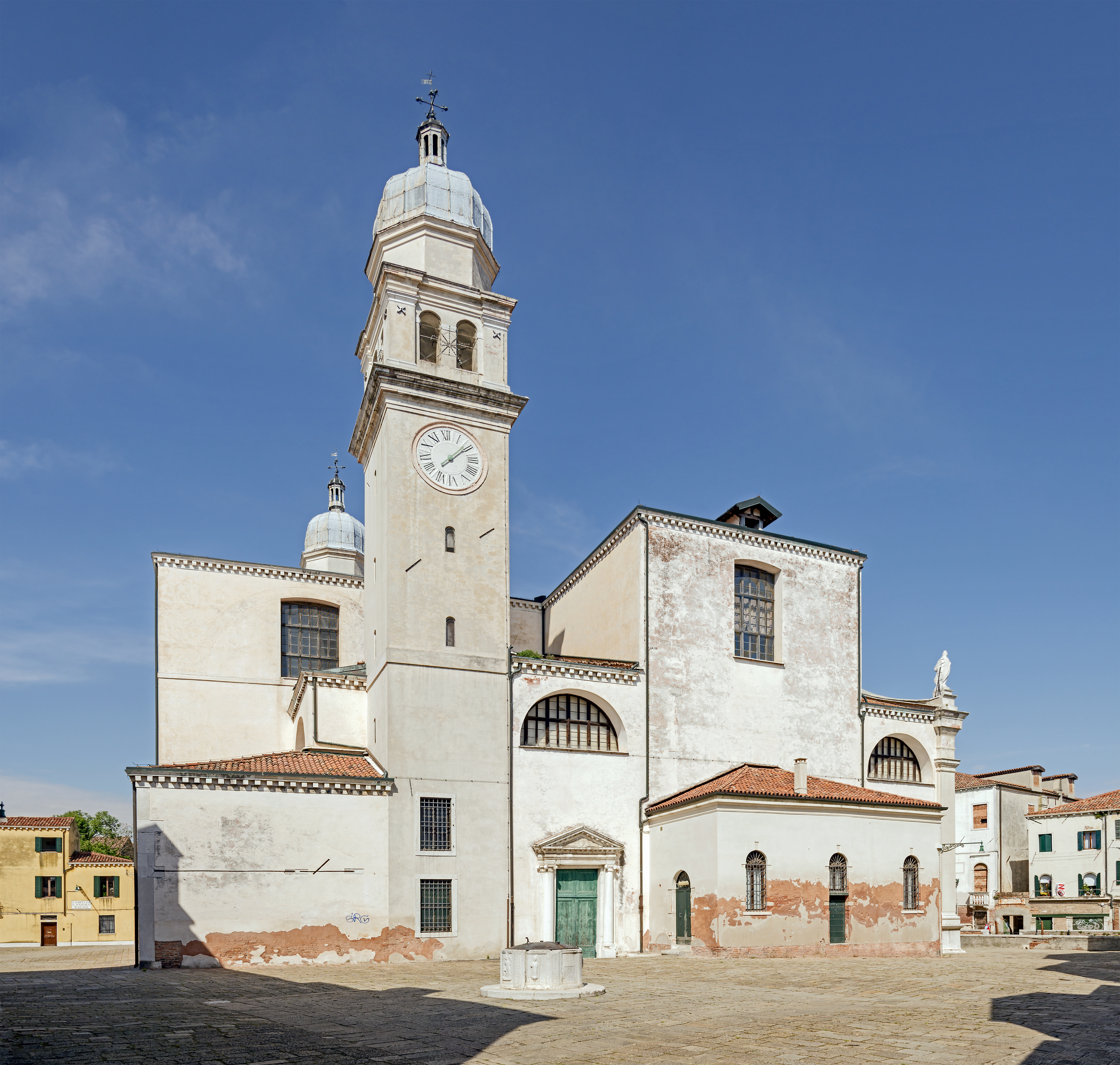 Saint Raphael church in Venice - View from Campo dietro il Cimitero